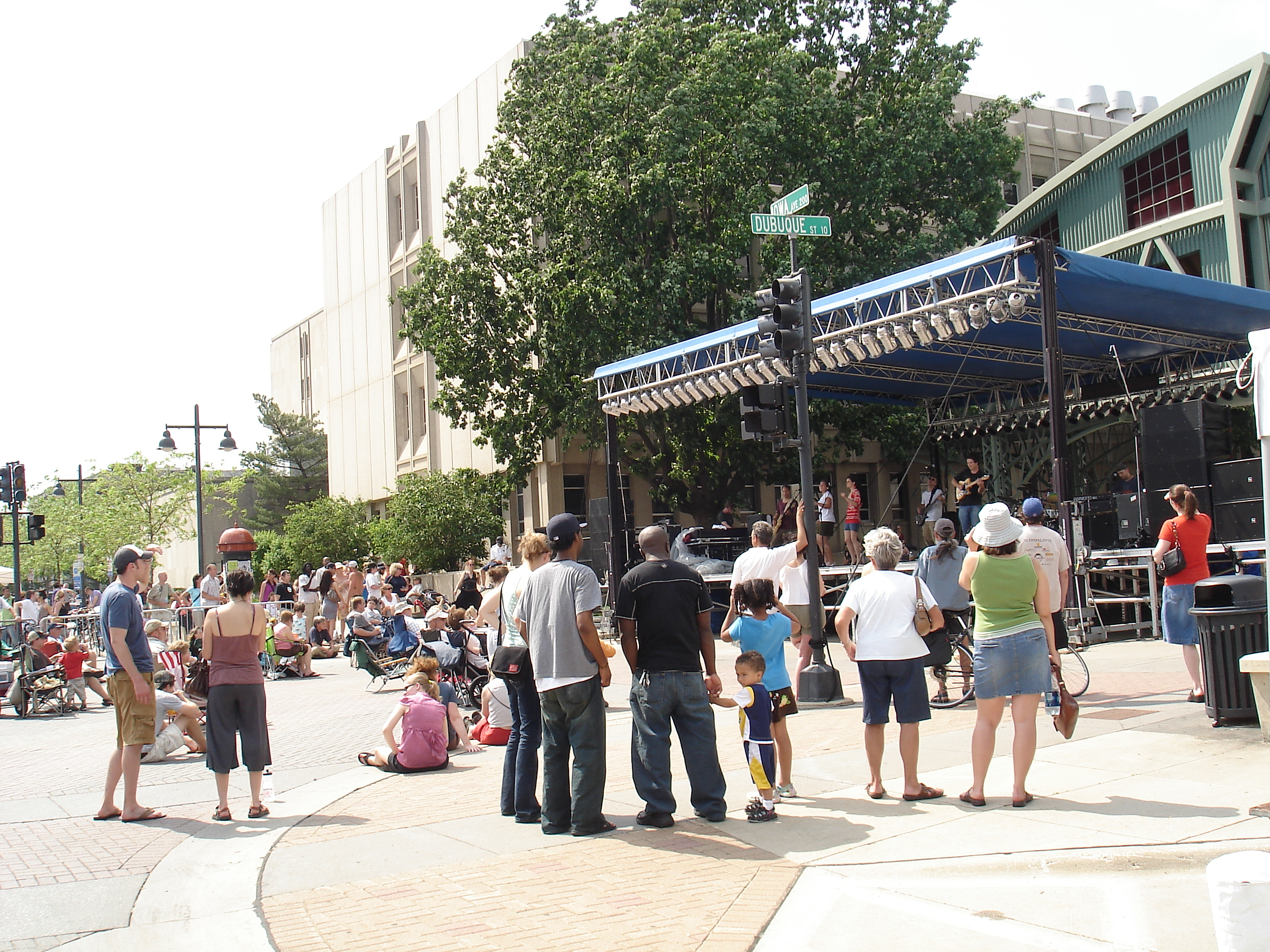 Music Concert in Art Festival, Iowa City, Iowa, United States.